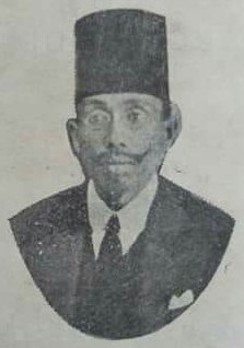 Dr. Haji Abdul Karim Amrullah (1879-1945), Islamic reformist cleric from Minangkabau, Indonesia. The father of Indonesian Islamic cleric and writers Prof. Dr. Haji Abdul Malik Karim Amrullah.